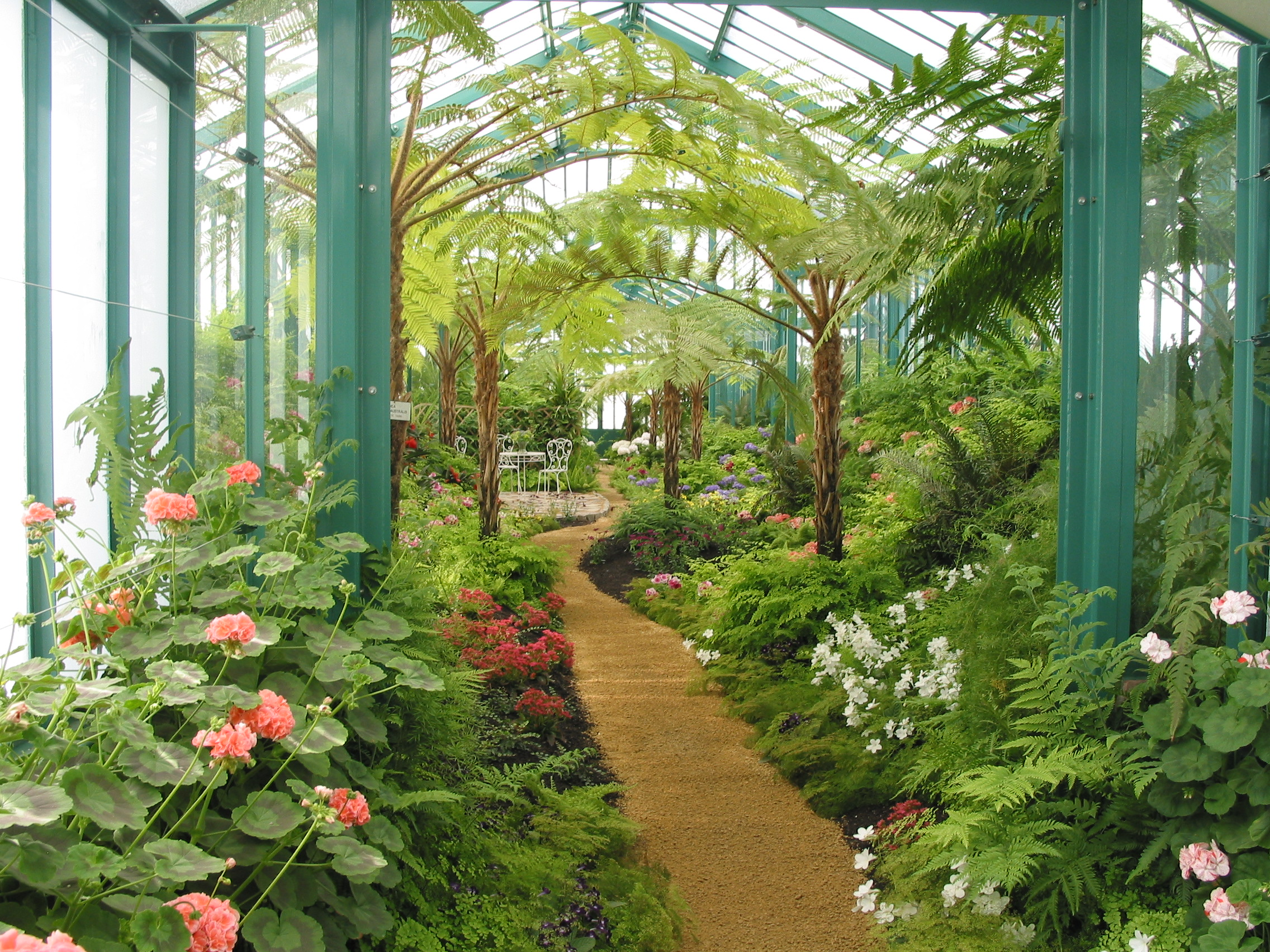 Laken (Belgium), the Royal Greenhouses of Balat (1874-1890).